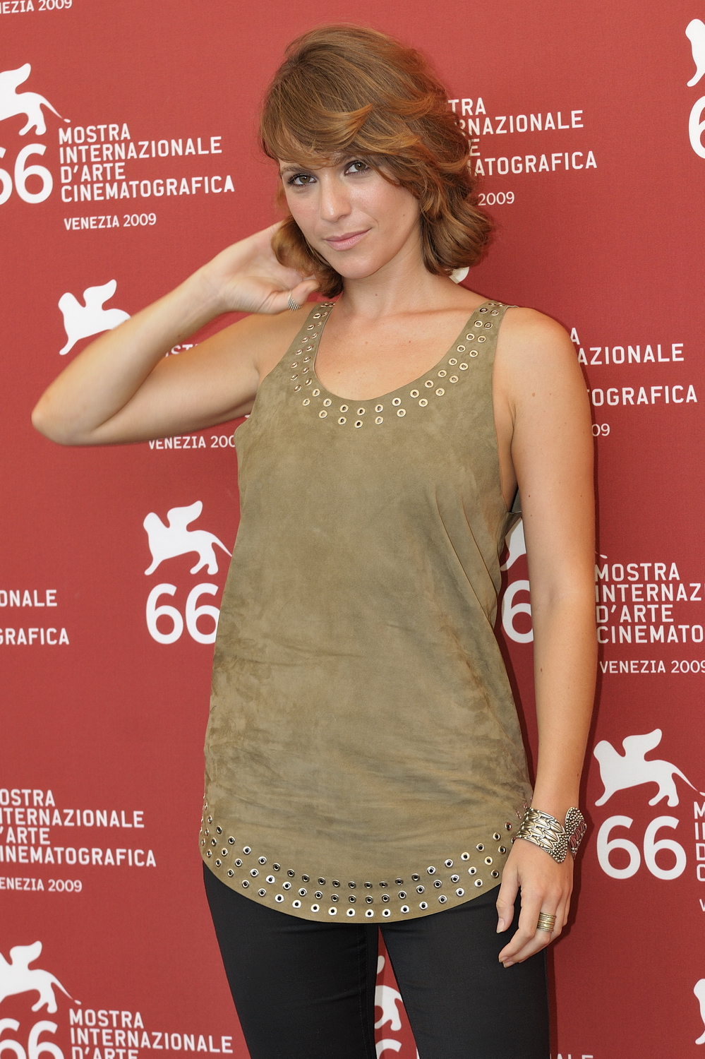 Isabella Ragonese at 2009 Venice Film Festival